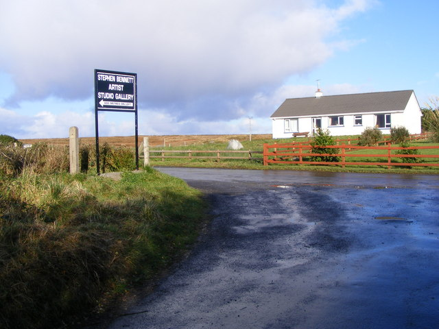 Road junction with R261